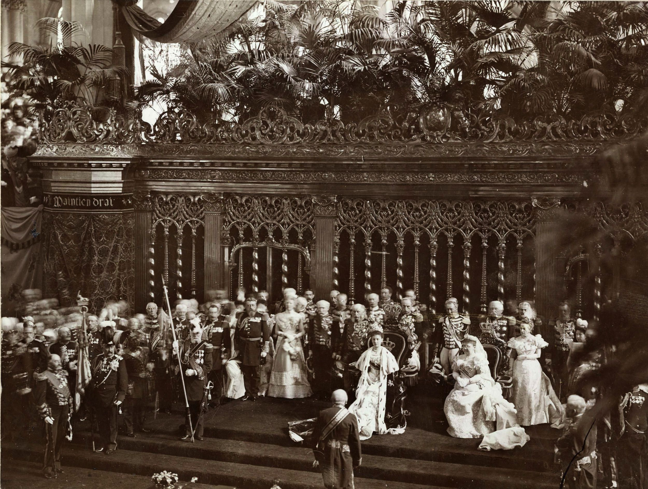 Coronation of Queen Wilhelmina of Nederlands.